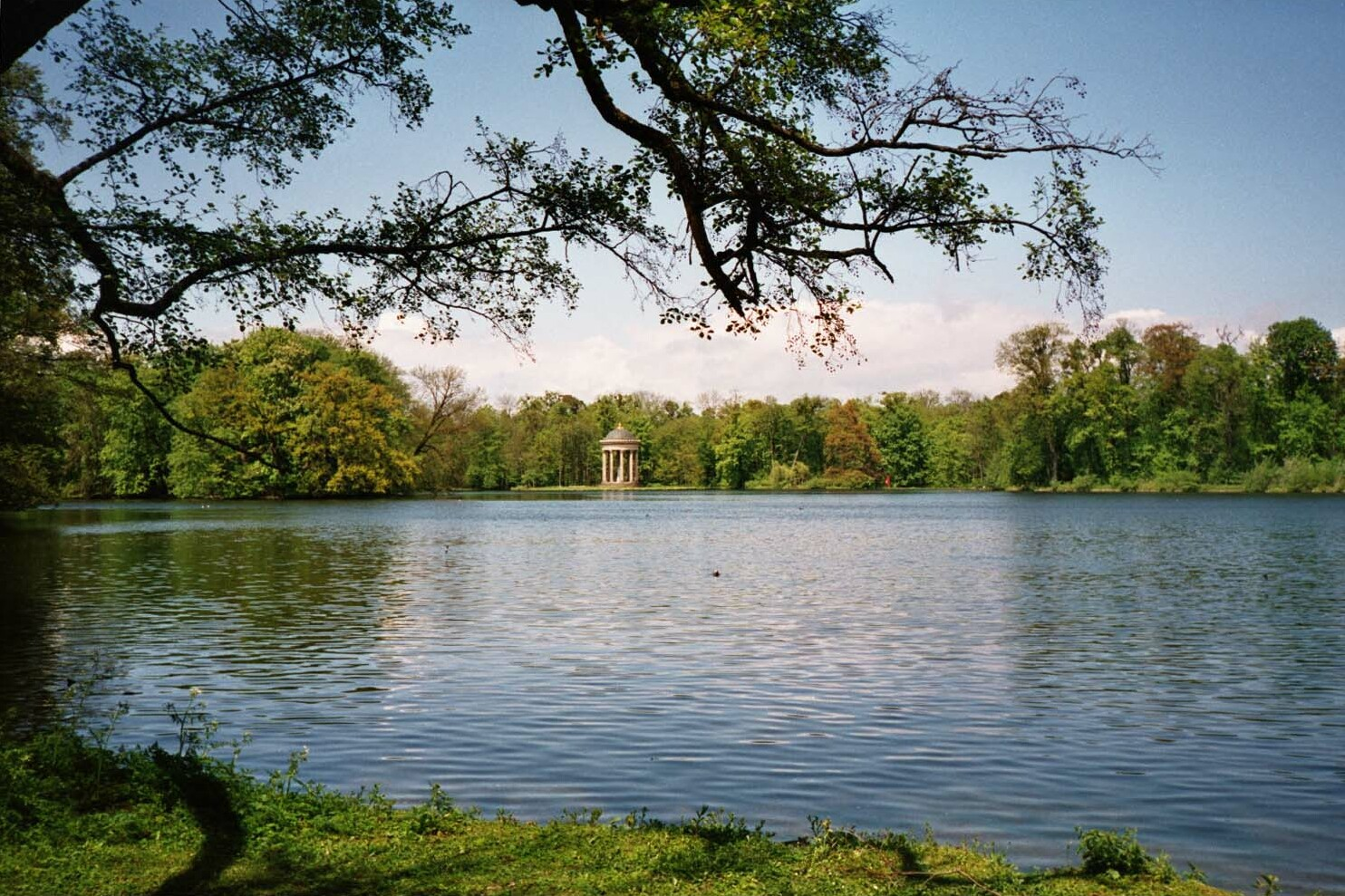 Monopteros, Nymphenburg Palace, Bavaria